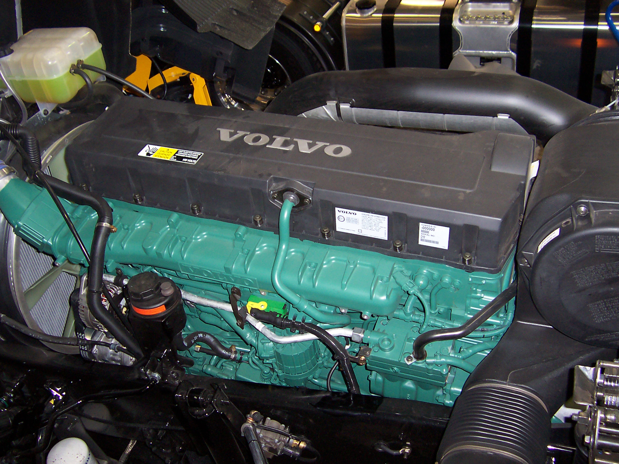 Volvo 16 litre inline 6 cylinder diesel engine